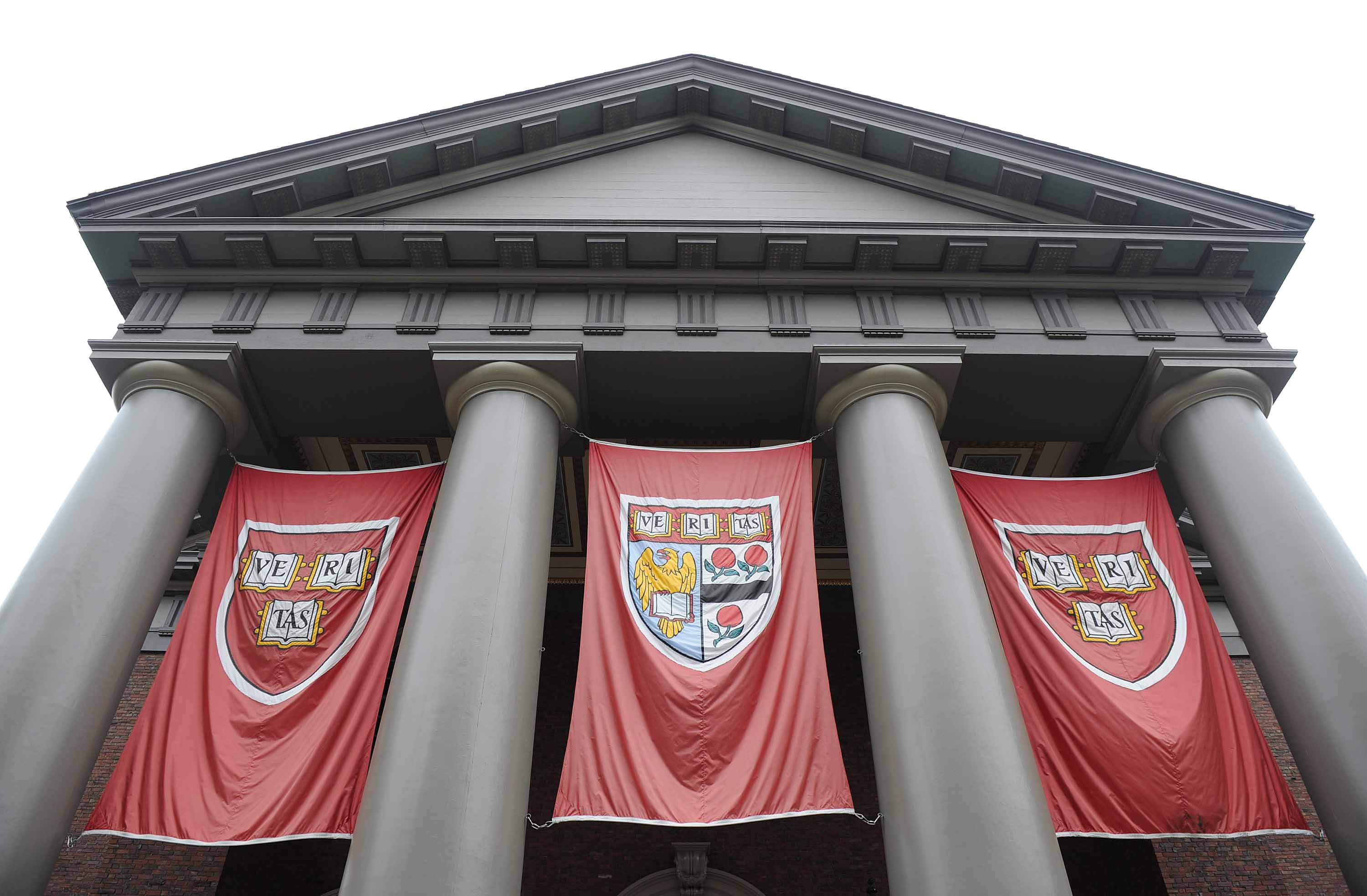 Banners on building on the Harvard University campus in Cambridge, Mass.